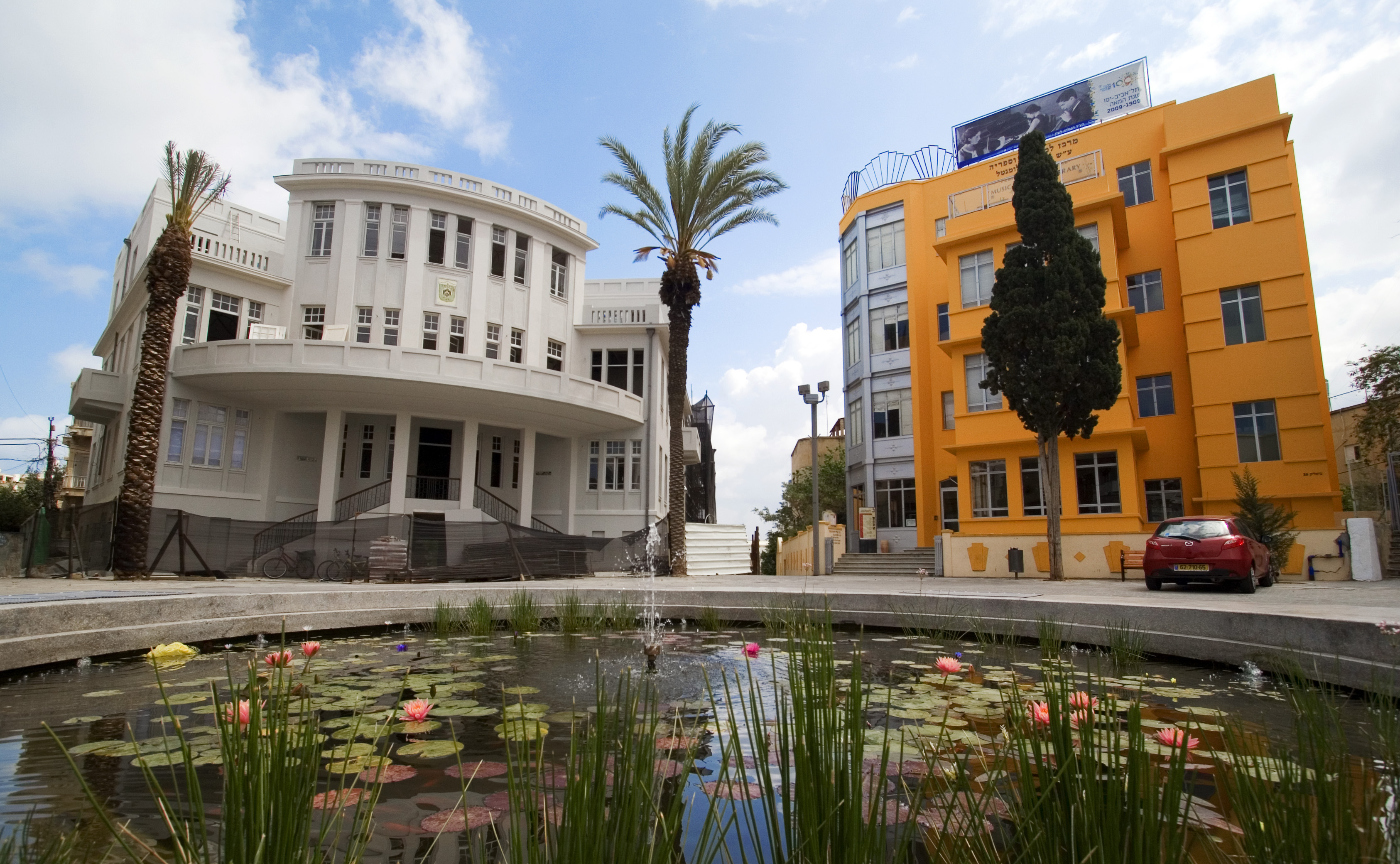 PH. Skora's Building, Tel Aviv. To date Museum of the History of Tel Aviv - Jaffa